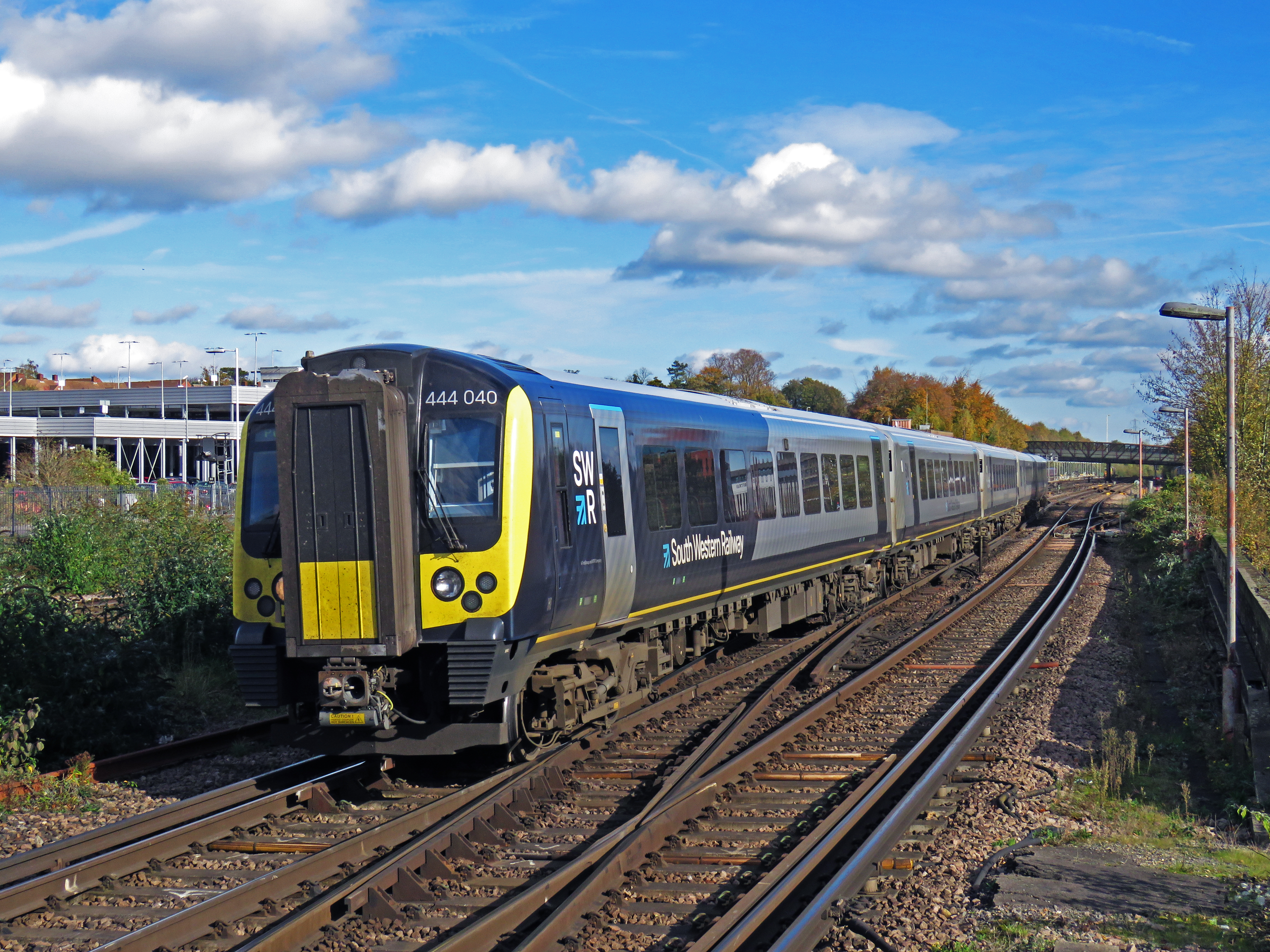 SWR 444040 at Basingstoke 25/10/17